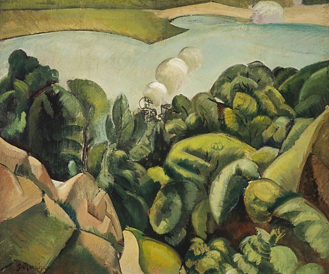 "The Lake" signé 'J. Marchand' oil on canvas 56.50 x 67.00 cm.